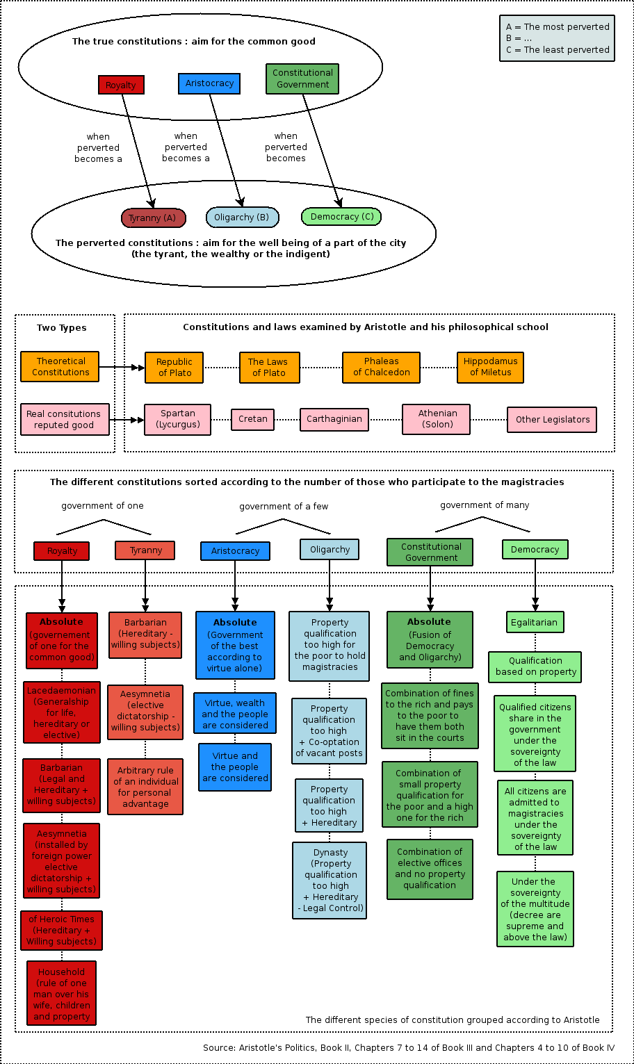 Alternative diagram illustrating the classification of constitutions by Aristotle